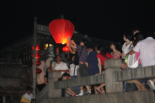 Sky lantern in Xitang, Zhejiang, China